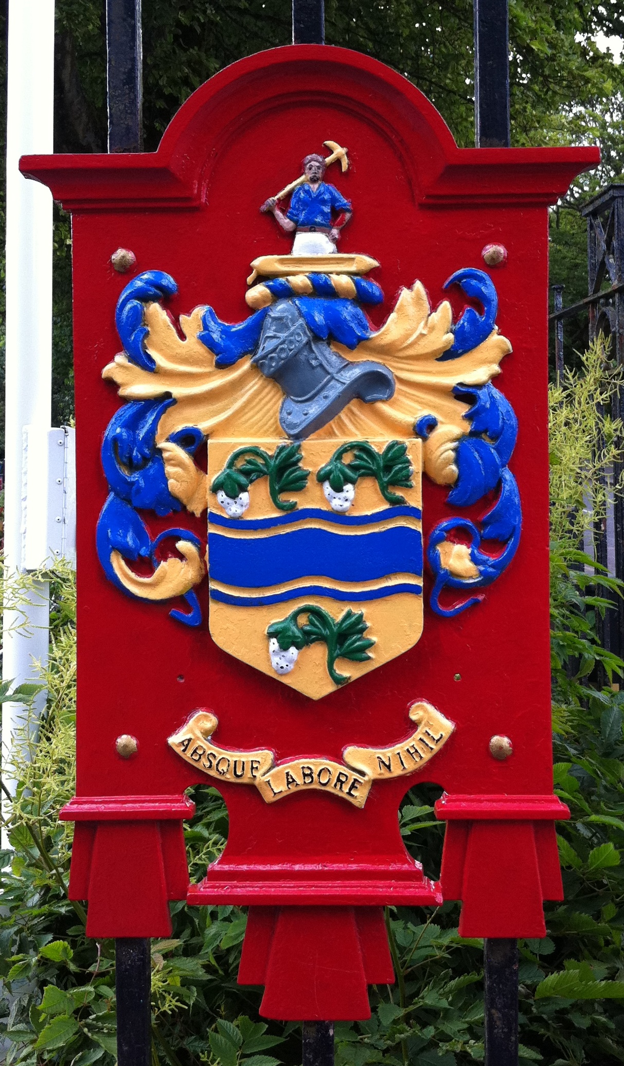 Darwen Coat of Arms as seen on the main gates of the Bold Venture Park in Darwen